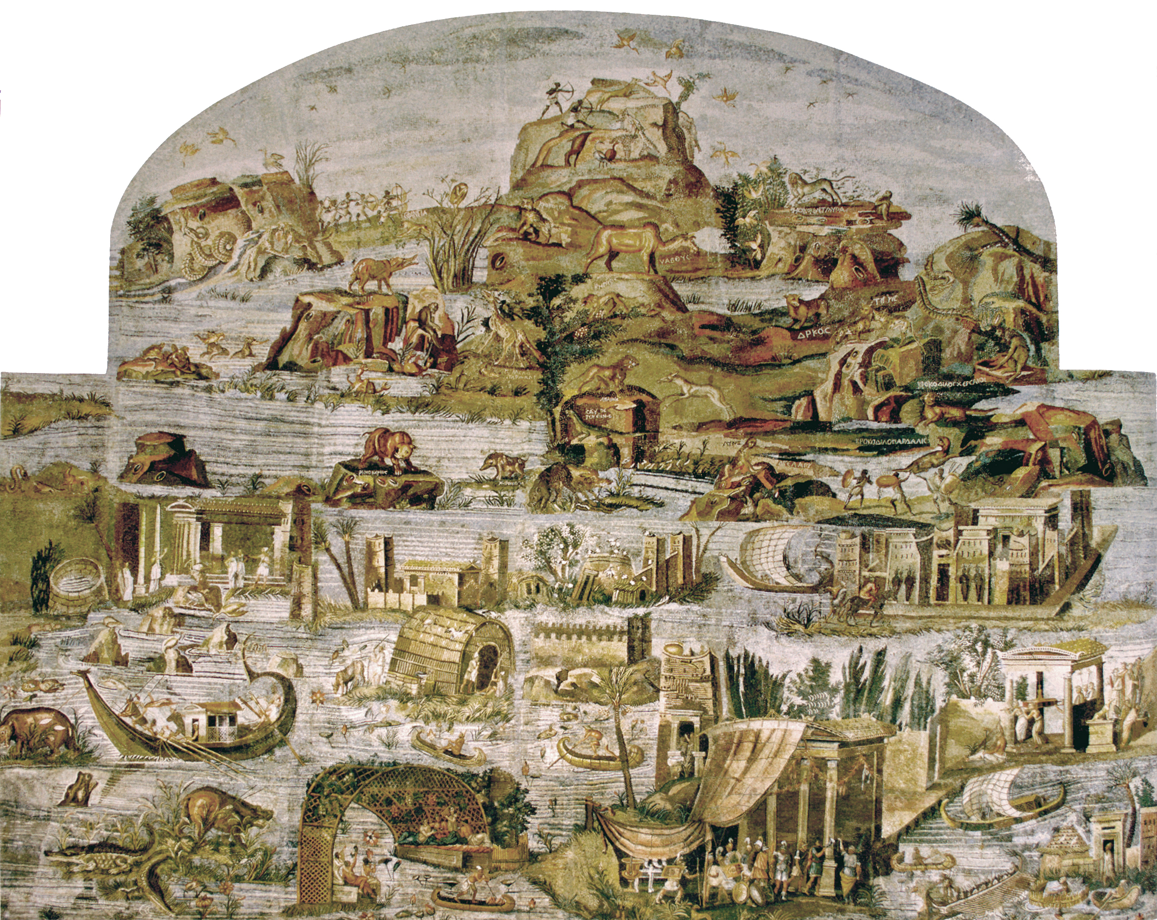 Life on the Nile during the flood. Nilotic mosaic, floor of the artificial cave of Palestrina, Italy. 4.31 x 5.85 m.